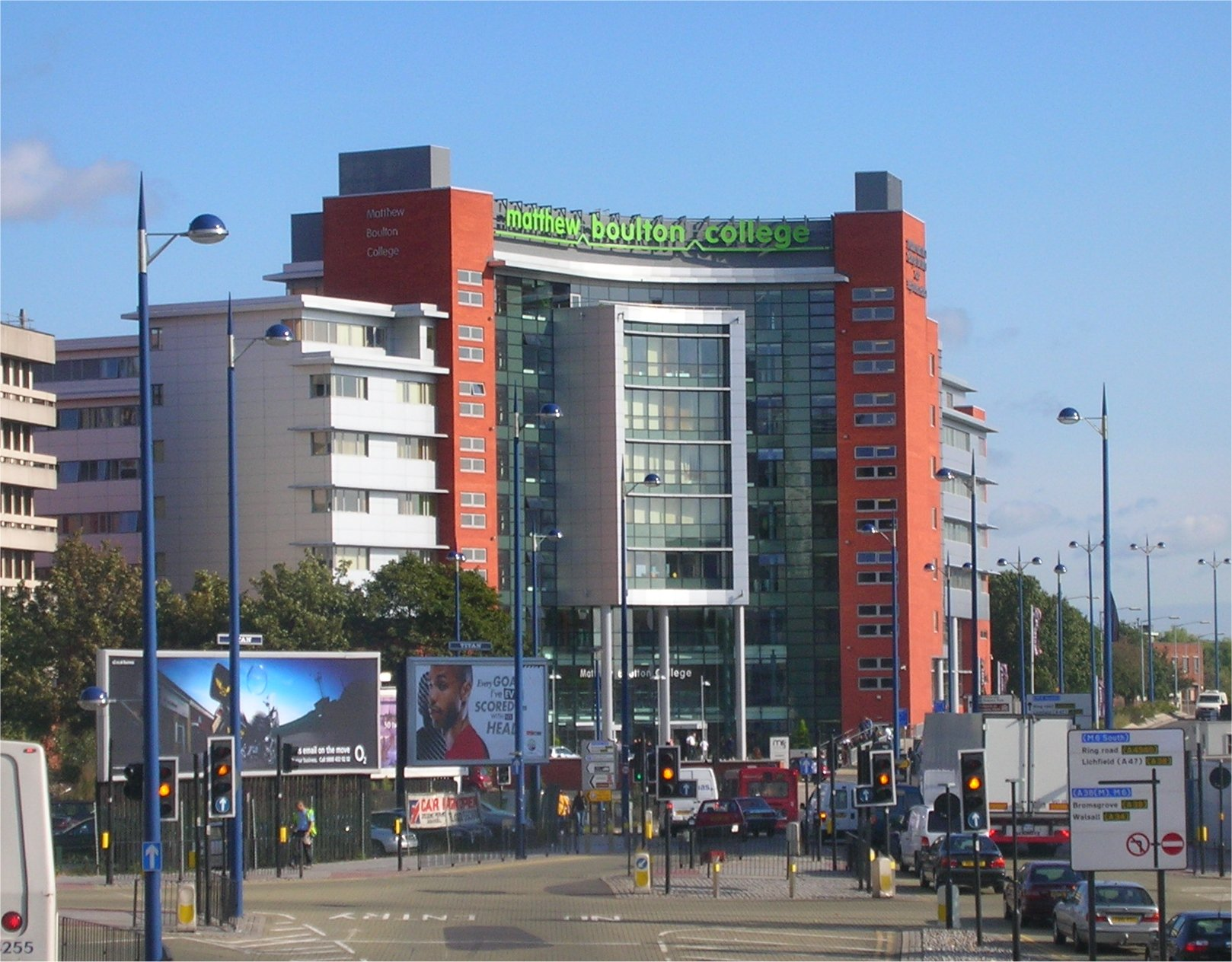 Matthew Boulton College of Further and Higher Education at its new site in Central Birmingham, England. Photographed by me 18 September 2006. Oosoom